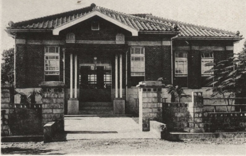 大樹庄役場